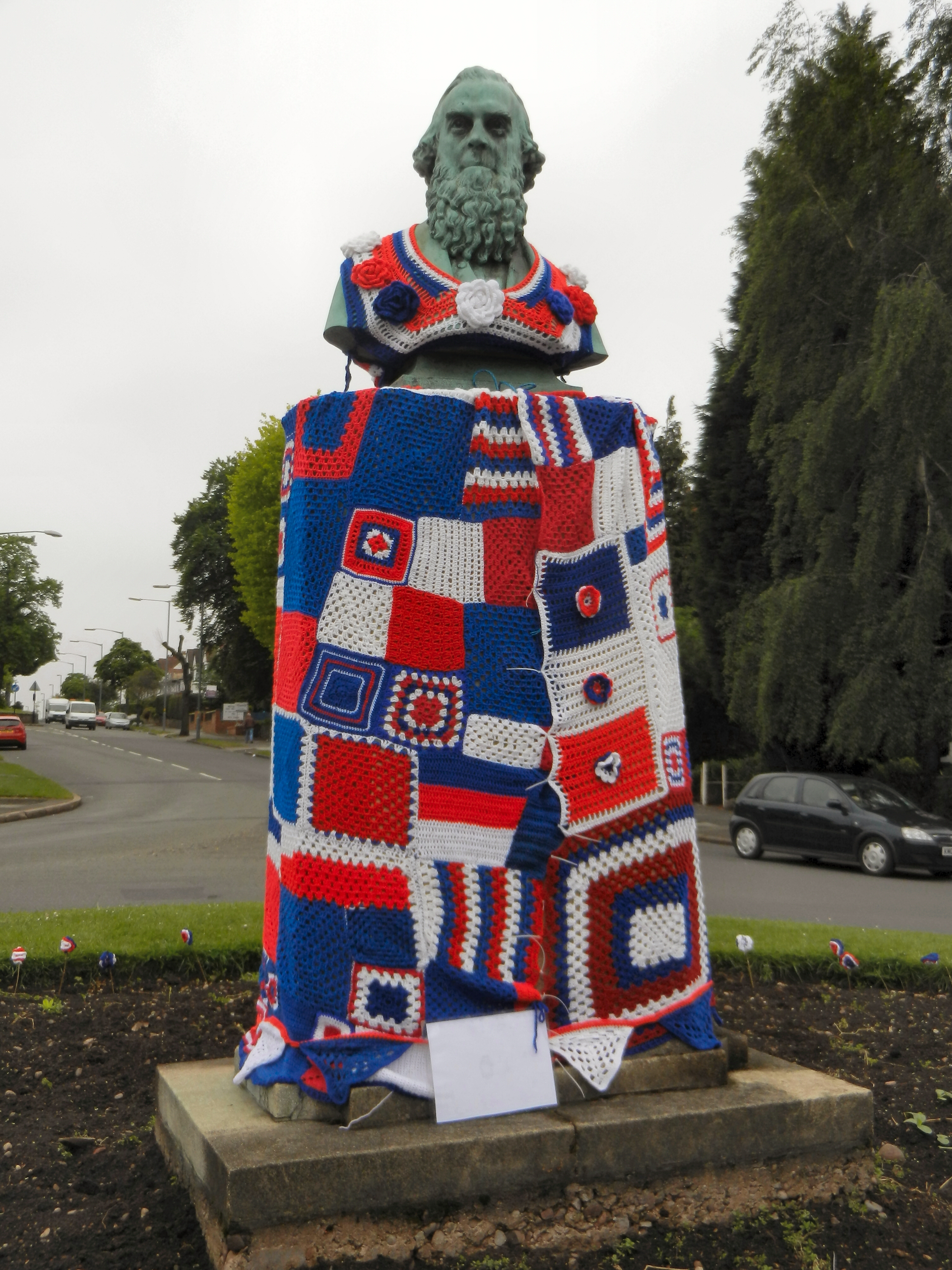 Josiah Mason’s Bust, cast in 1951 by William Bloye from a marble statue by Francis John Williamson in 1885, since destroyed) is often decorated to reflect current events, here is his Jubilee 2012 ‘outfit’